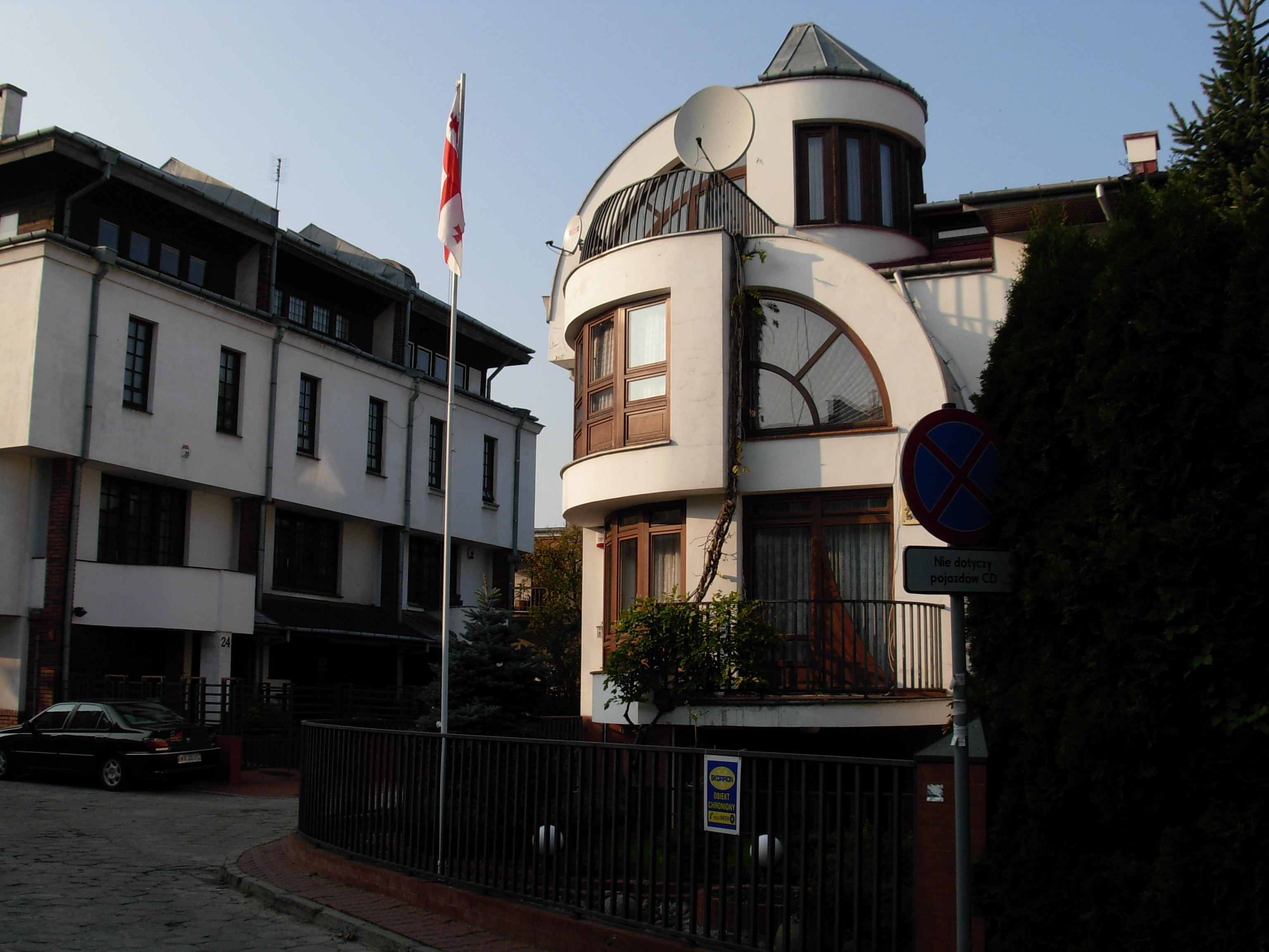 Embassy of Georgia in Warsaw